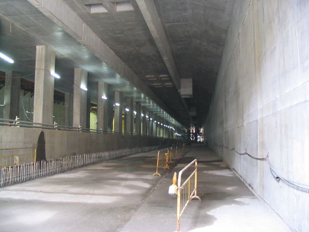 古洞站-預留南行線月台結構-落馬洲方向 Future Platform of Kwu Tung Station, view towards Lok Ma Chau Station